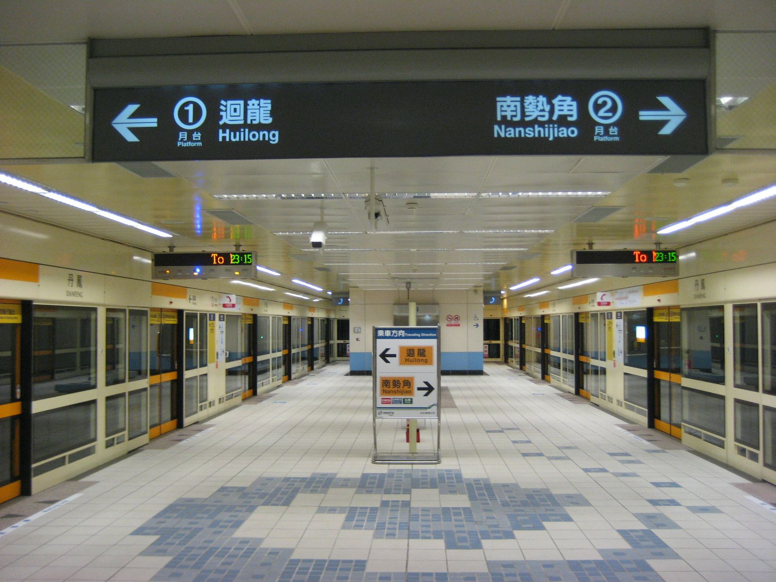 Platform 1 (left) and Platform 2 (right) of Danfeng Station, Taipei MRT.